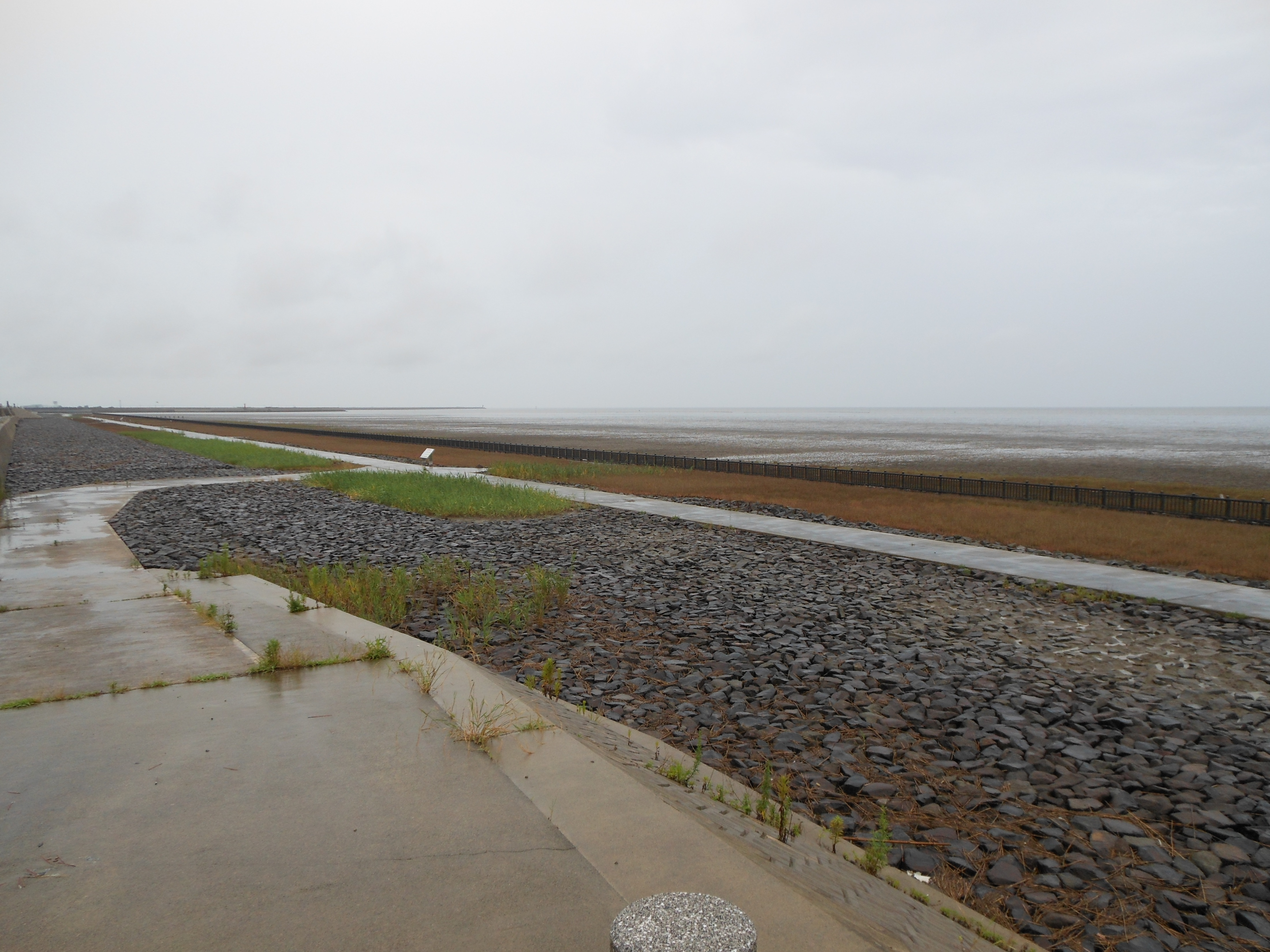 Suaeda japonica's fields of Higashiyoka Coast, Saga city, Saga prefecture, Japan.